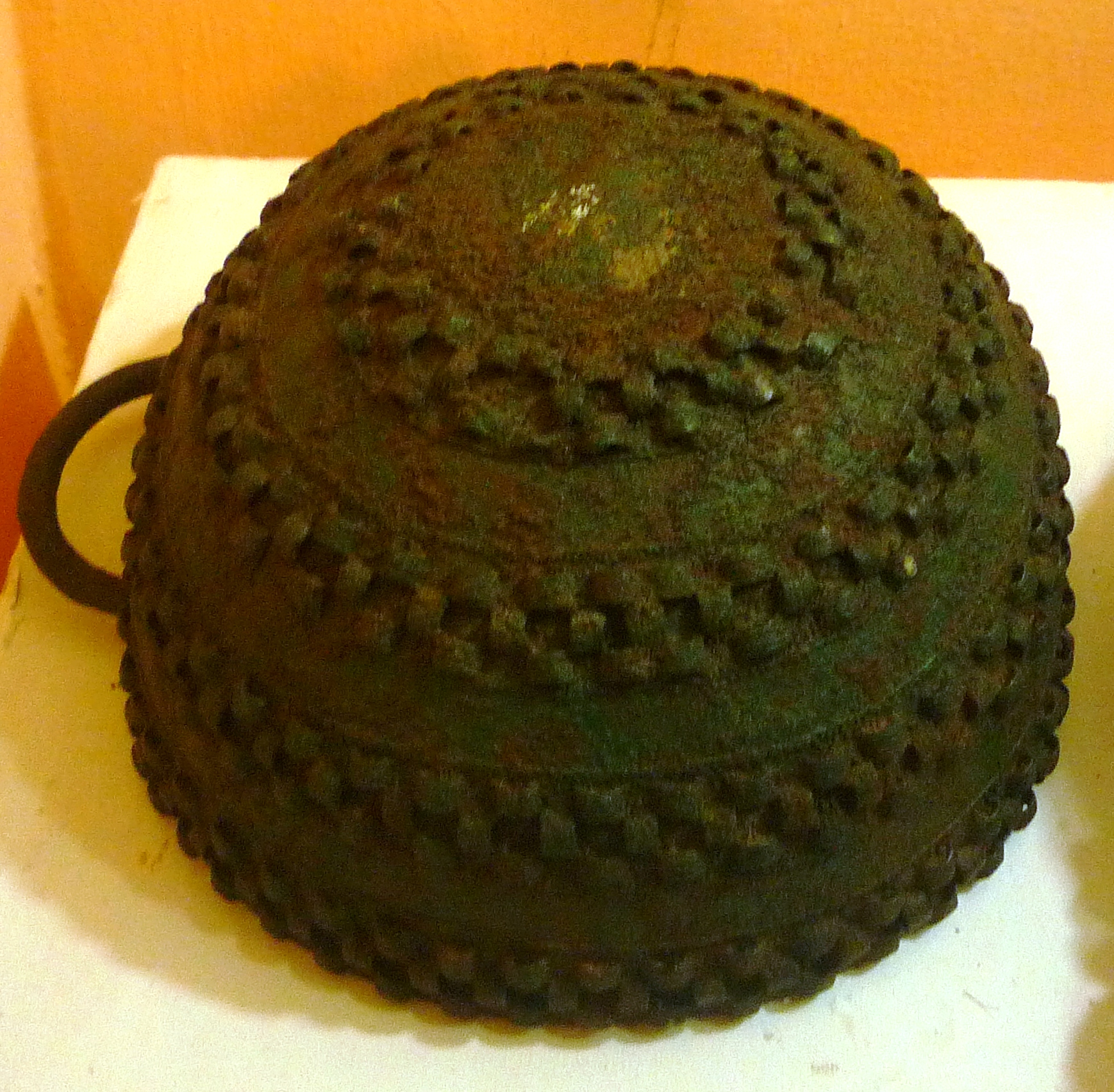 9th century bronze pot excarvated in Igbo-Ukwu, Anambra State, Nigeria. Now located in the National Museum Onikan, Lagos, Nigeria